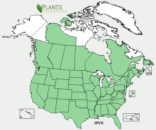 Range in North America via USDA